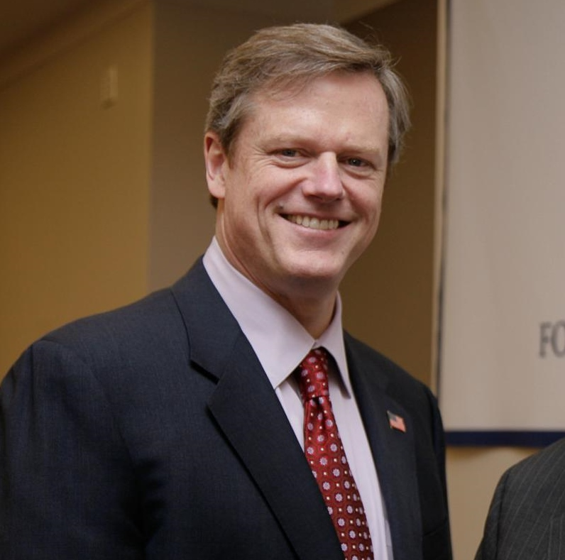 Gubernatorial Speaker Series featuring Republican Candidate Charlie Baker